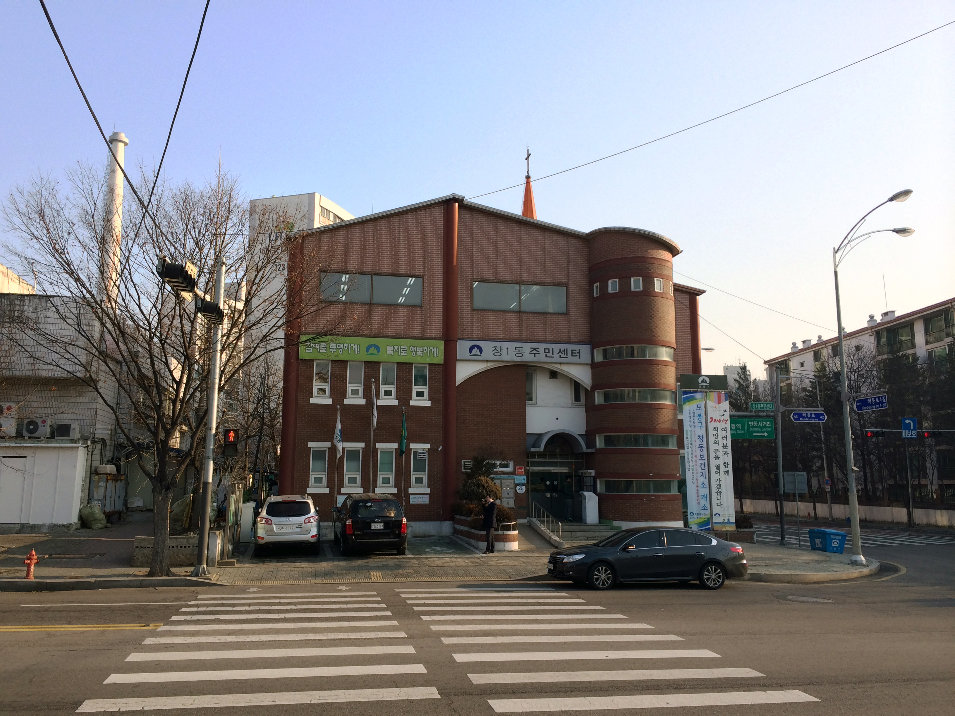 Chang 1-dong Comunity Service Center (Dobong-gu)